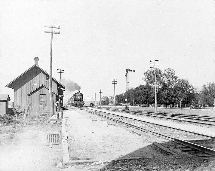 Atchison, Topeka & Santa Fe Railway Company depot in Clements, Kansas.